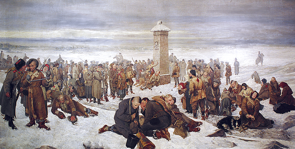 The subject of the painting is the Siberian exile of Poles after their defeated January Uprising (1863) against the Russian Empire. The painting depicts the stop of the exiled convoy by the obelisk that marks the border between Europe and Asia. The artist himself is among the exiled here, near the obelisk, on the right.[1]